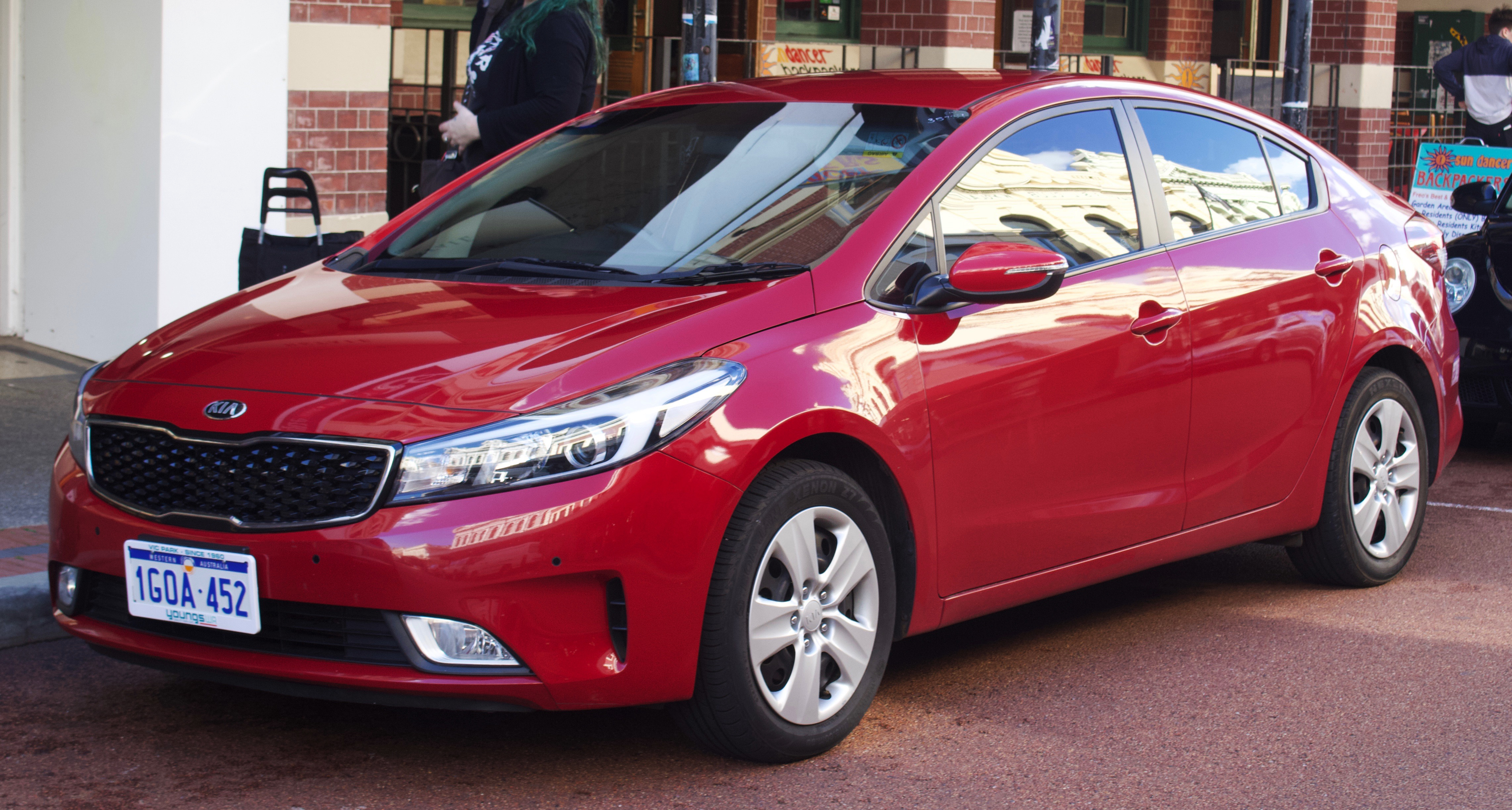 2018 Kia Cerato (YD) S sedan. Photographed in Fremantle, Western Australia, Australia.